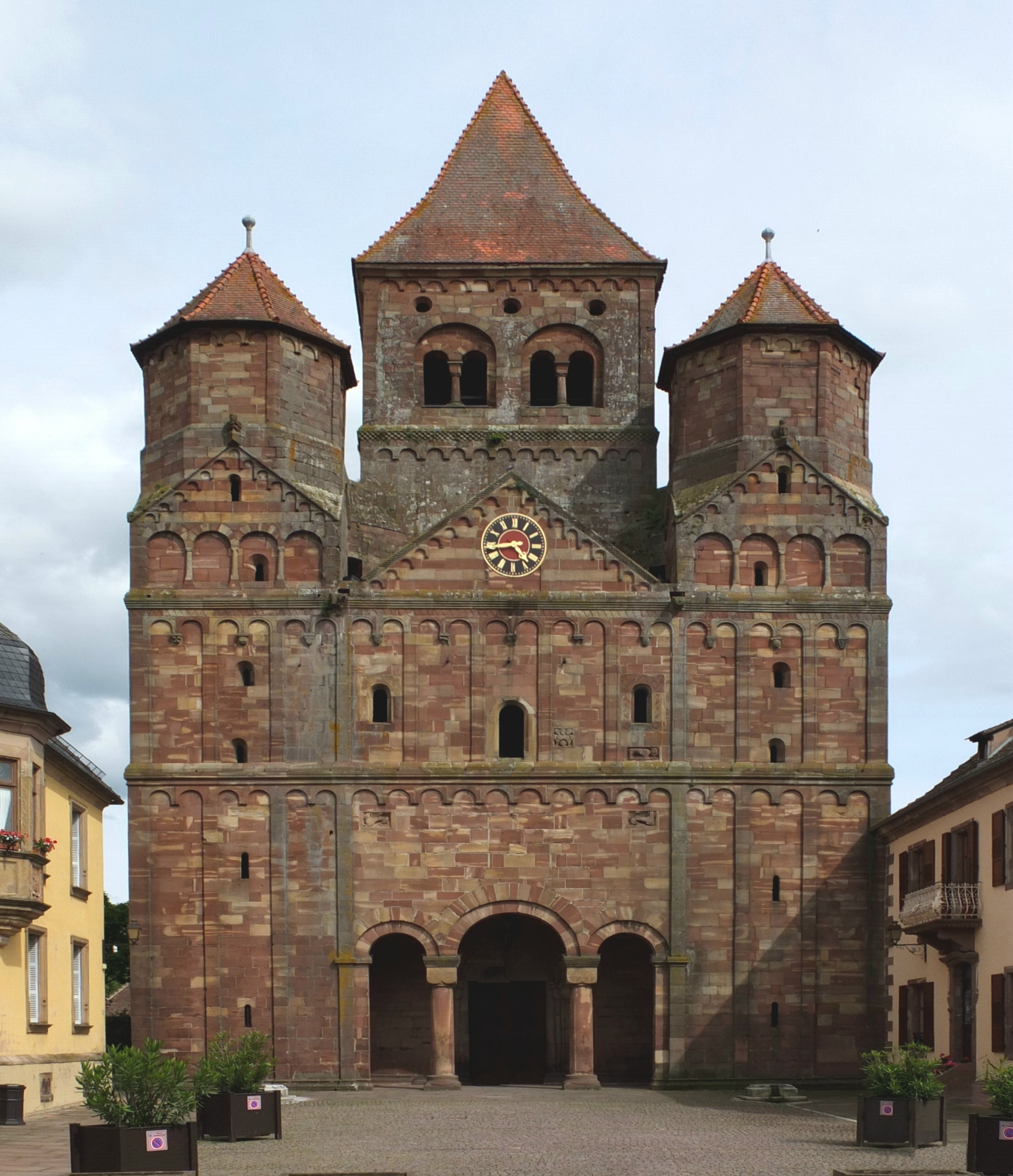 Abbey church in Marmoutier (Alsace), view from NW